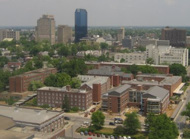 Photo taken by submitter.